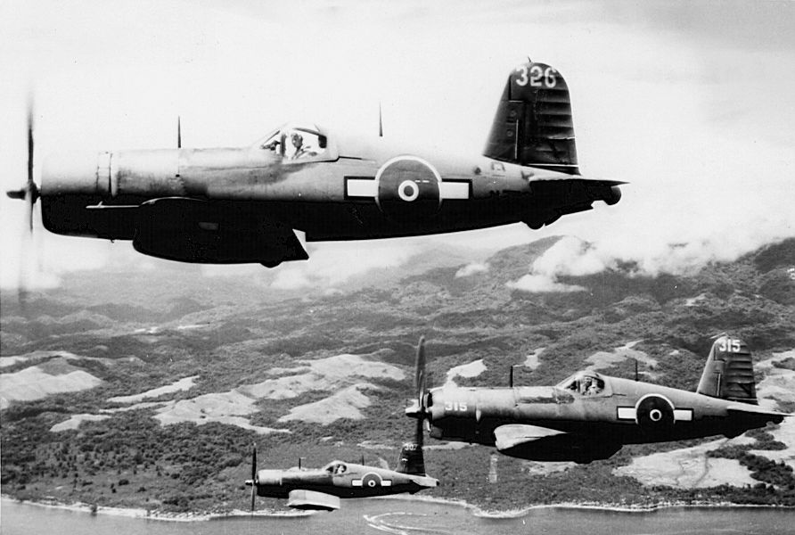 Three Vought F4U-1 Corsair aircraft (s/n NZ5307, 5315, 5326) of No. 26 Squadron, Royal New Zealand Air Force in formation flight. No. 26 Squadron was reformed in March 1945 at RNZAF Station Ardmore, equipped with Chance-Vought F4U-1 Corsair fighter bombers. The squadron served at airfields in Guadalcanal and Bougainville before being disbanded in June 1945.